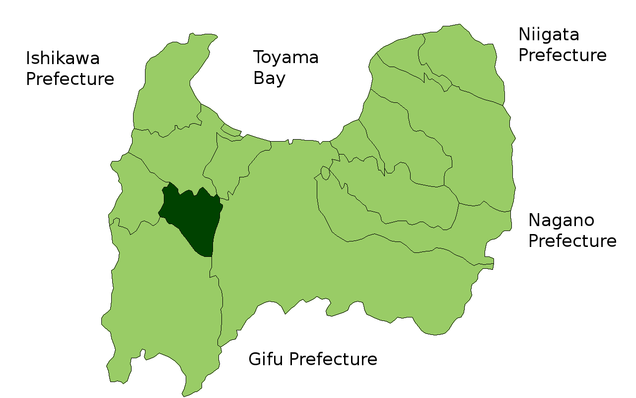 Location Map of Tonami in Toyama Prefecture, Japan